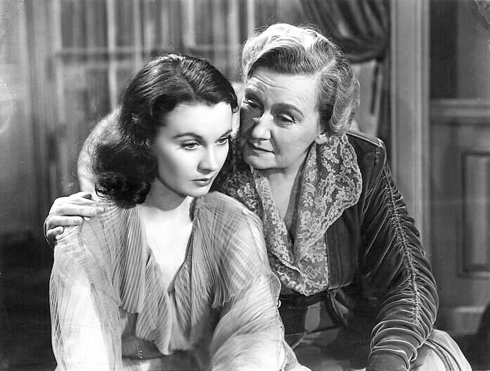 Photo of Vivien Leigh and Lucile Watson from the 1940 film Waterloo Bridge.